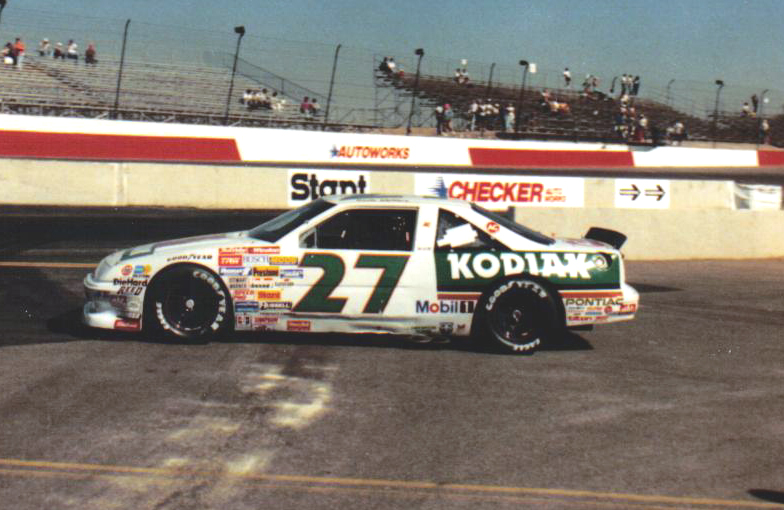 The Raymond Beadle owned Kodiak Pontiac of Rusty Wallace finished 16th in the 1989 Checker 500.